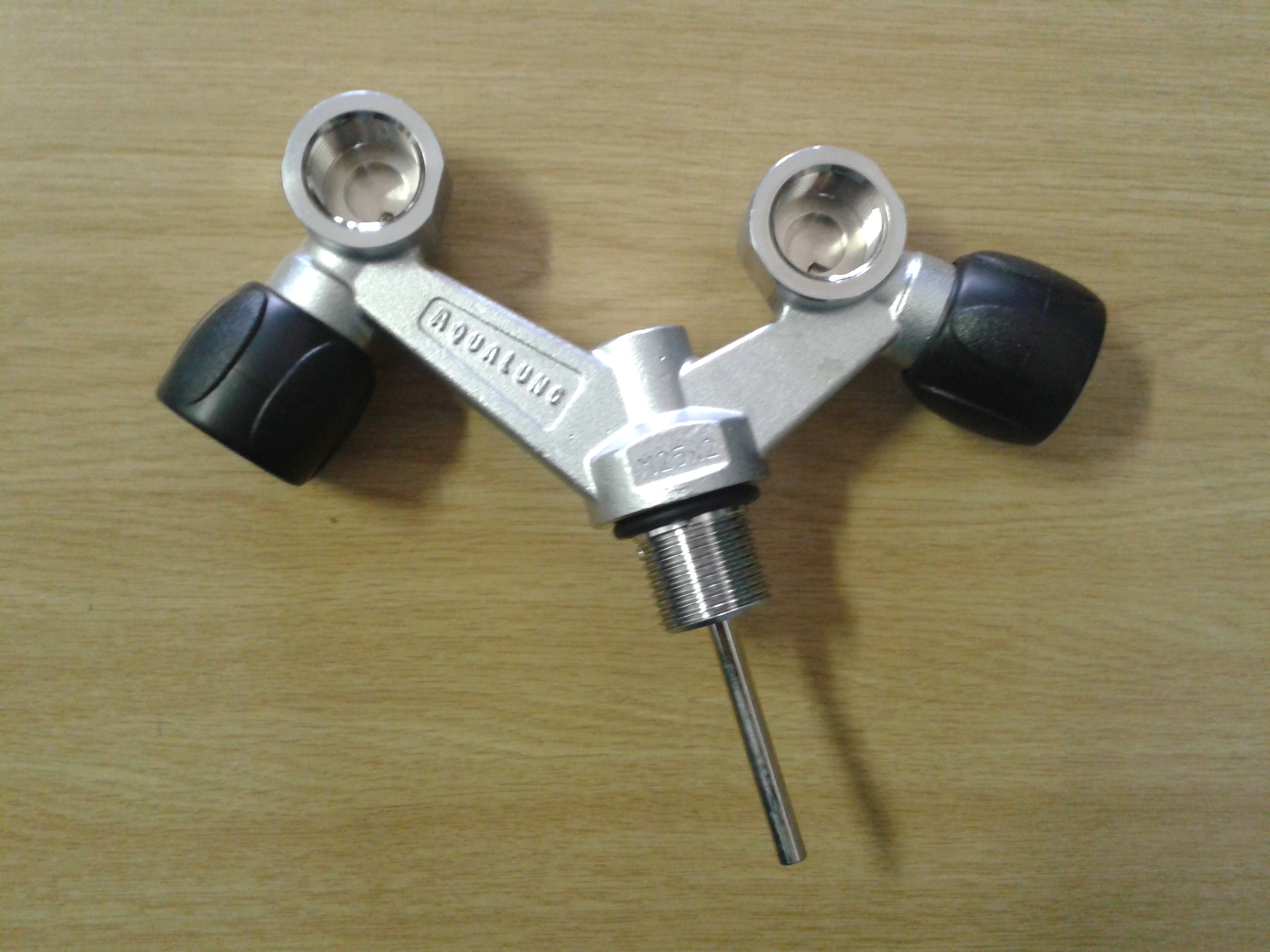 Slingshot scuba cylinder valve